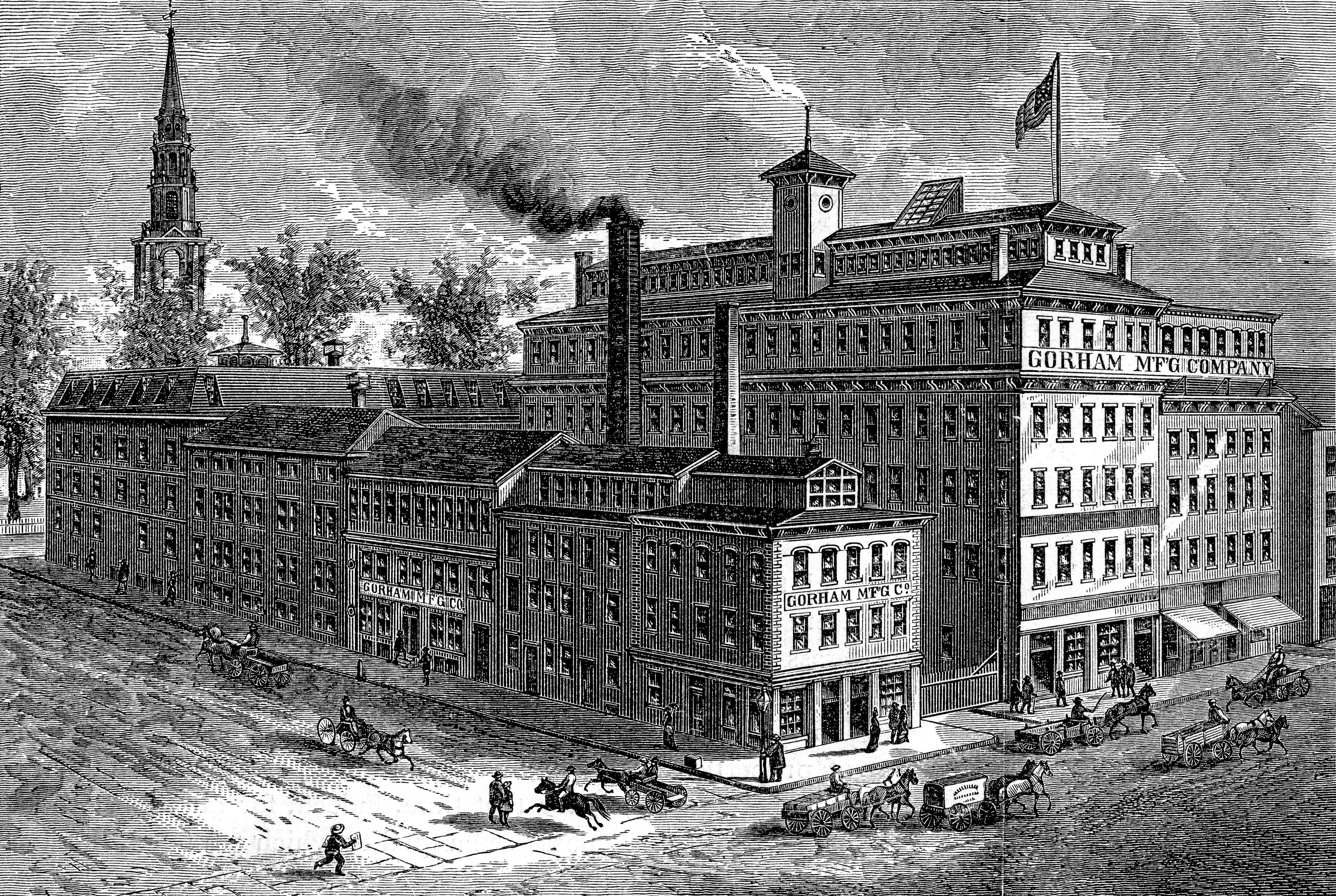 Gorham Manufacturing Company, 1886 engraving from "The Providence Plantations for 250 Years" (1886), p. 274. "VIEW OF THE GORHAM MANUFACTURING COMPANY'S WORKS" "Canal, Steeple, and North Main Streets, Providence"